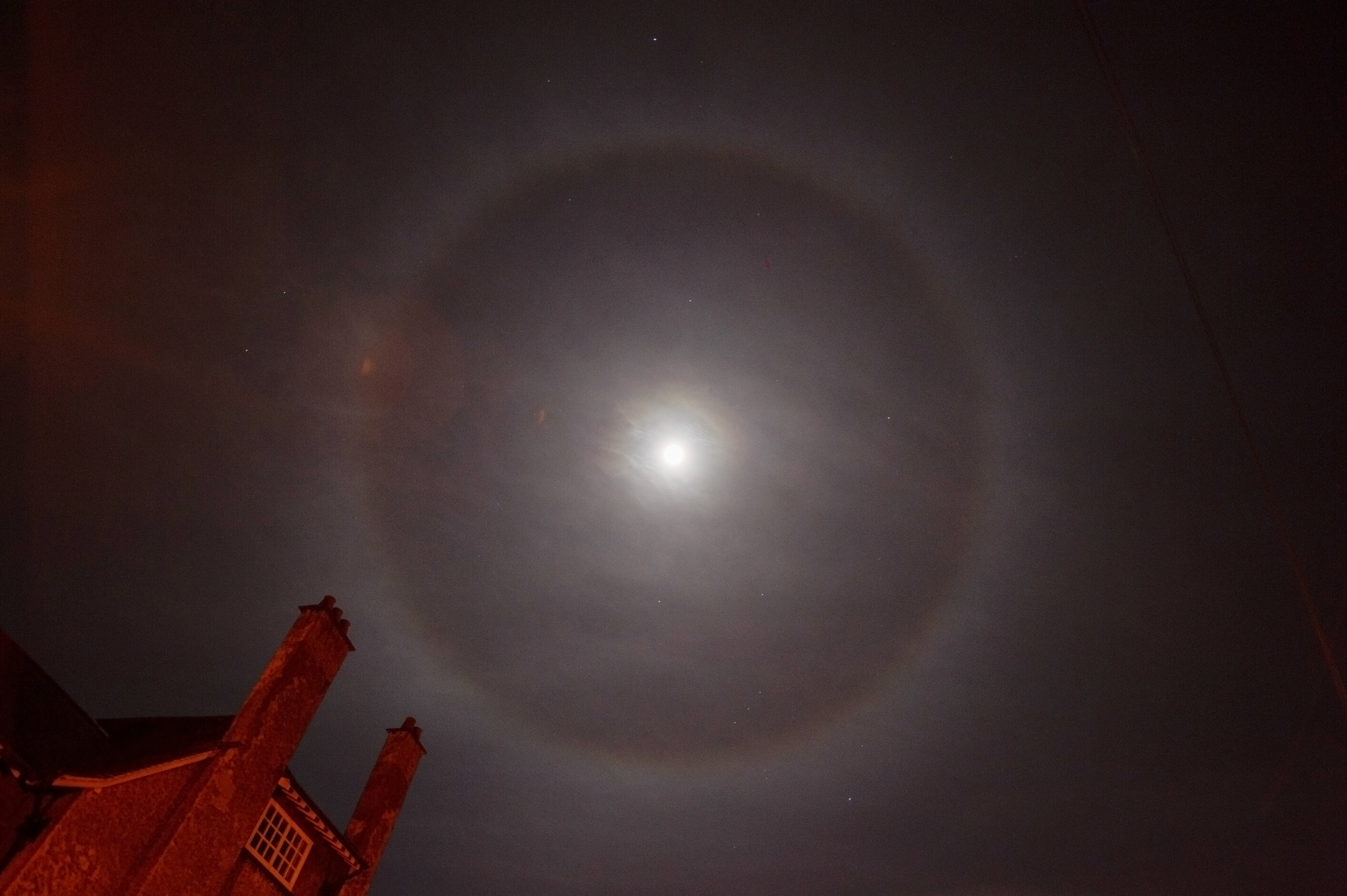 Lunar halo viewed from London, UK on Christmas Eve (24th December) 2015. Shot with a Nikon D3S and a Nikkor 20mm f/1.8G lens.